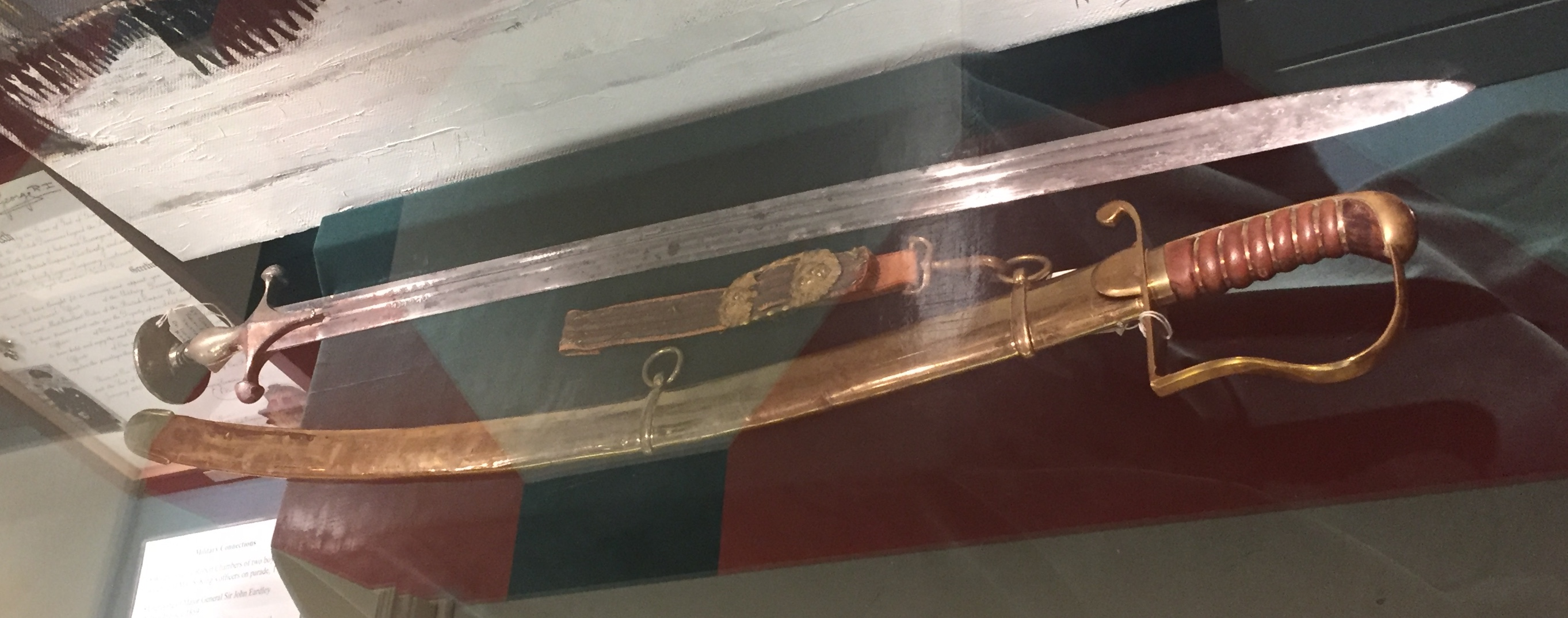 John Eardley Inglis Sword (top) Sir William William's sword (bottem) King's College Library, Halifax, Nova Scotia. Both men were given the swords by the Nova Scotia Assembly. Their portraits were both painted with the swords and are hung in Province House, Halifax